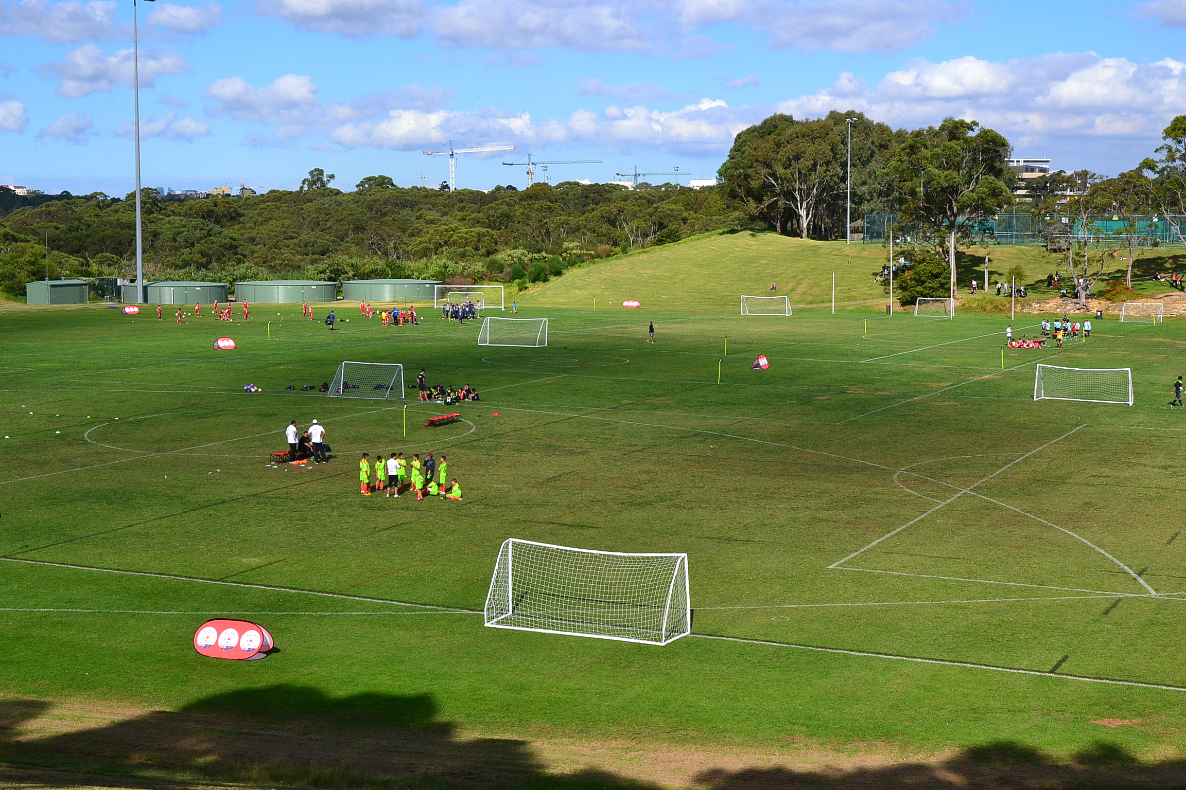 sports fields, Macquarie Park, Sydney